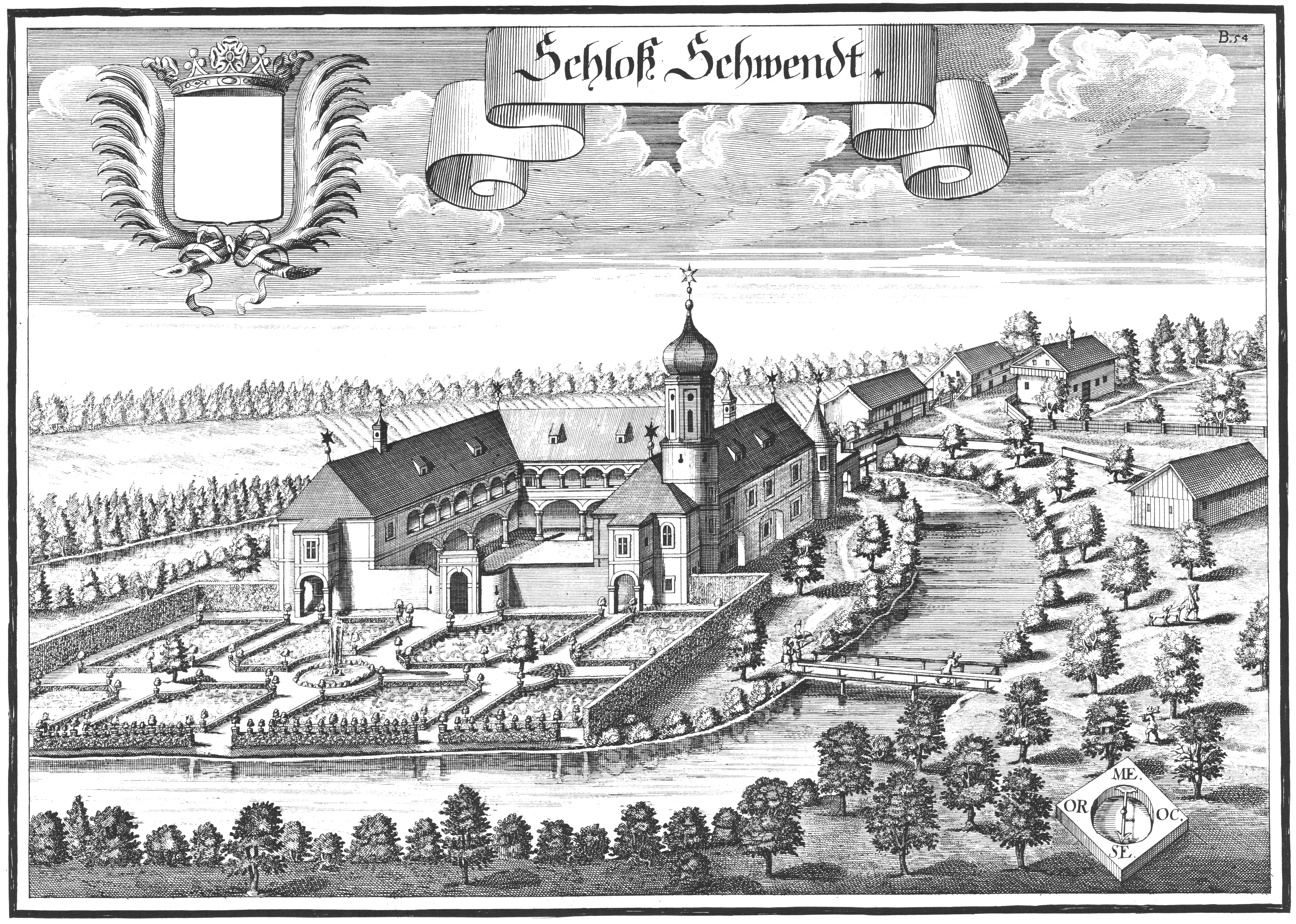 Michael Wening: Engraving of Schwendt castle, Upper Austria (ca. 1721)